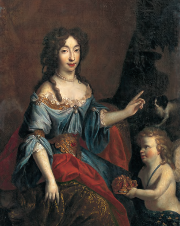 Princess Maria Anna Christina Victoria of Bavaria being handed the crown of the dauphine in 1680 prior to her marriage after François de Troy